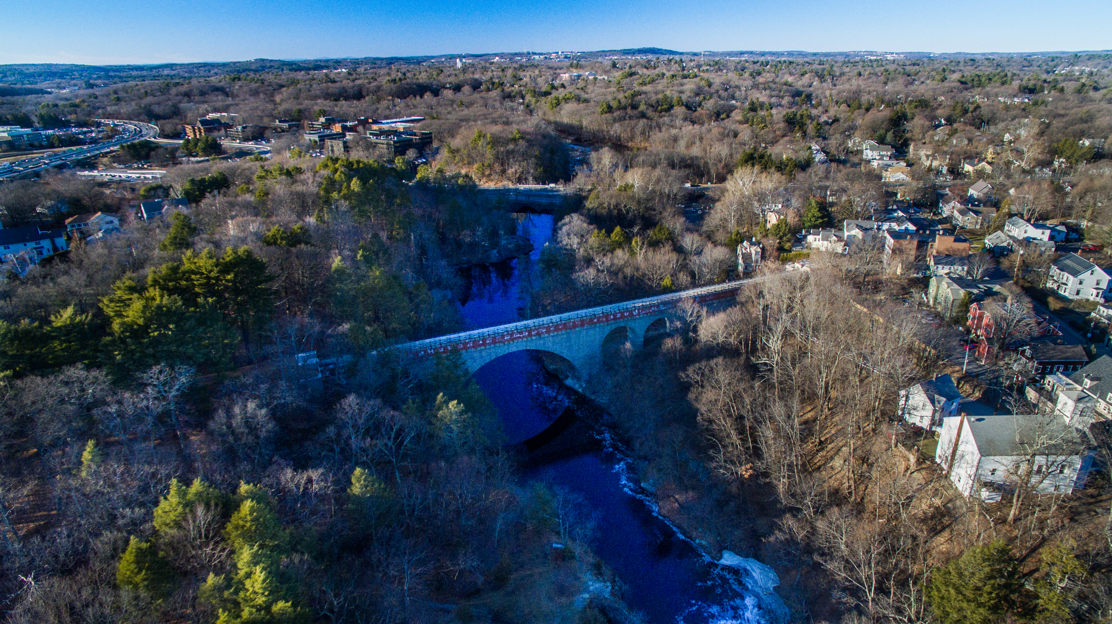 Aerial Photo of Echo Bridge in Newton, MA